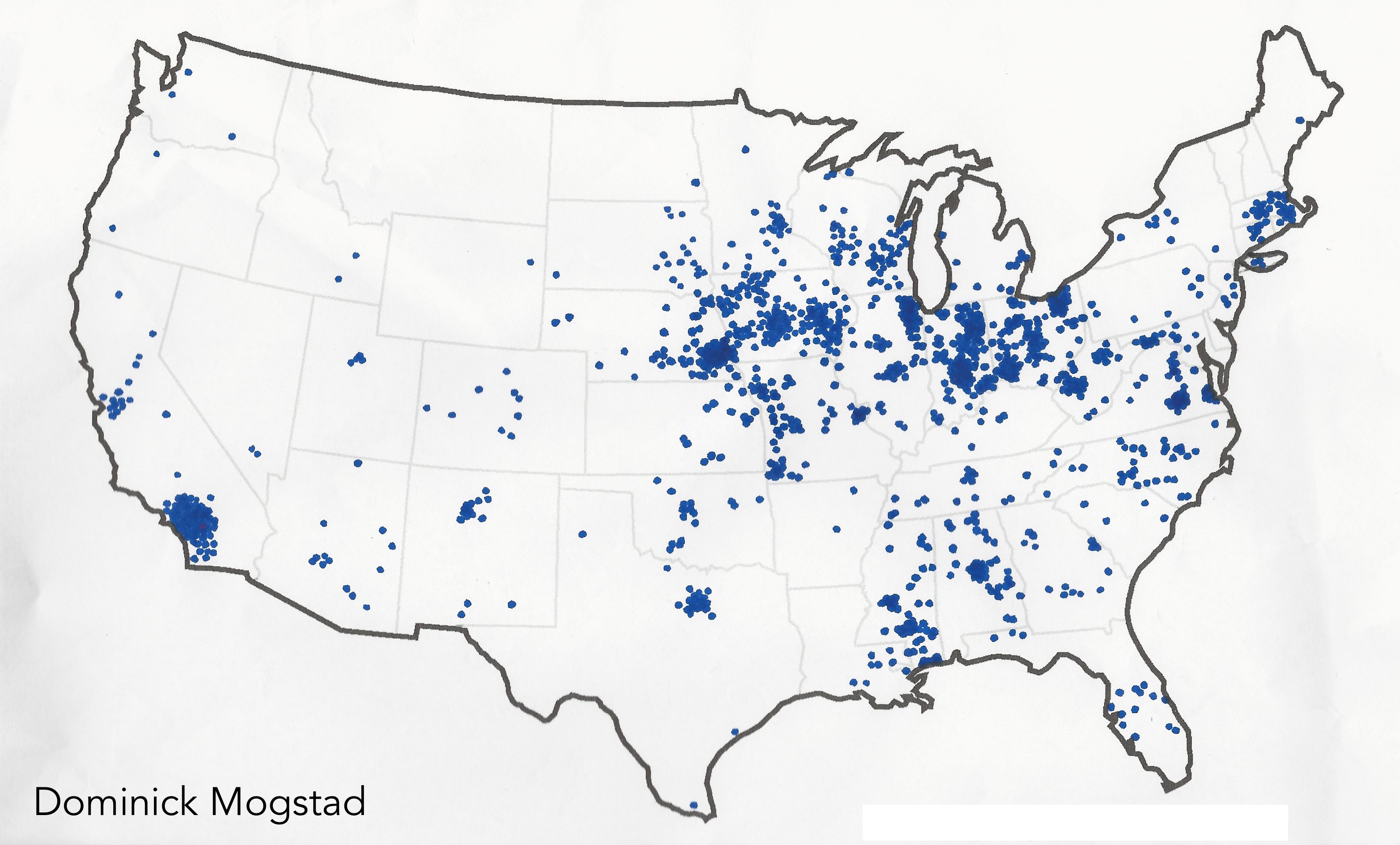 A map of the relative positions of every show choir school in the lower 48.